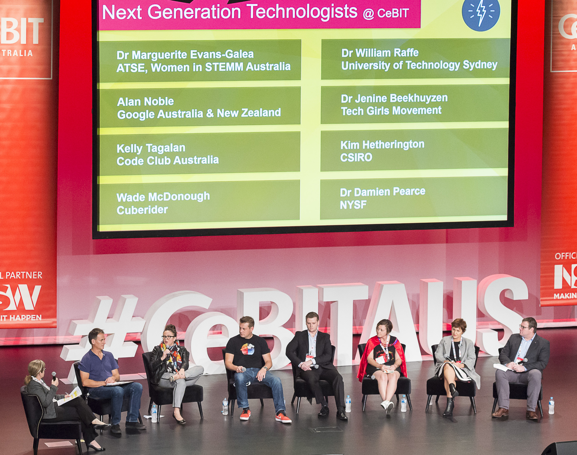 Marguerite Evans-Galea leads Cebit NextGenTechnologies-2017 Jenine Beekhauzen Kim Hetherington